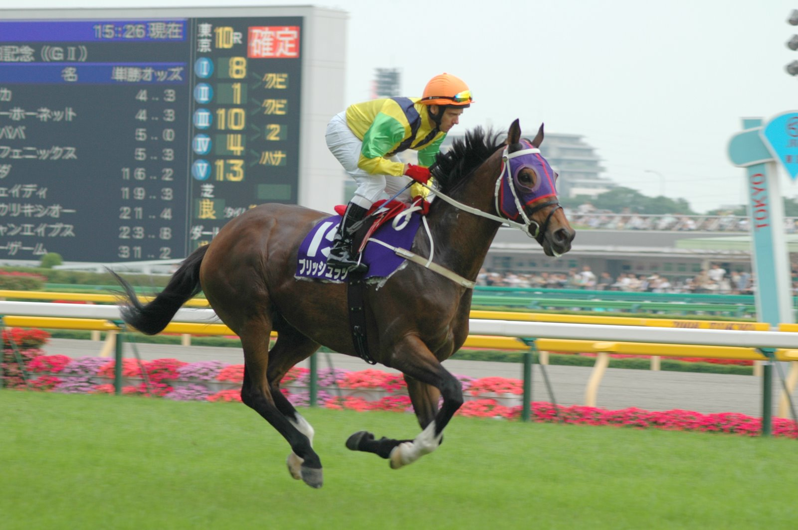 Bullish Luck at The 58th Yasuda Kinen(Jpn)